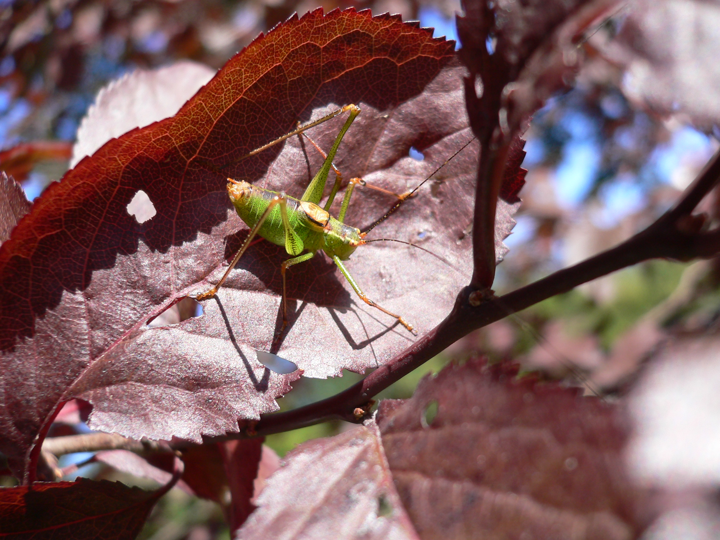 Berlin-Kreuzberg, Germany, Görlitzer Ufer, between Görlitzer Park and Landwehrkanal – male Leptophyes punctatissima